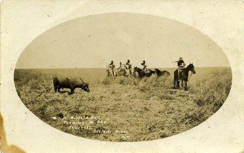 A buffalo bull turning on shooters, Adelaide River, Northern Territory. The shooter is believed to be Joe Cooper.